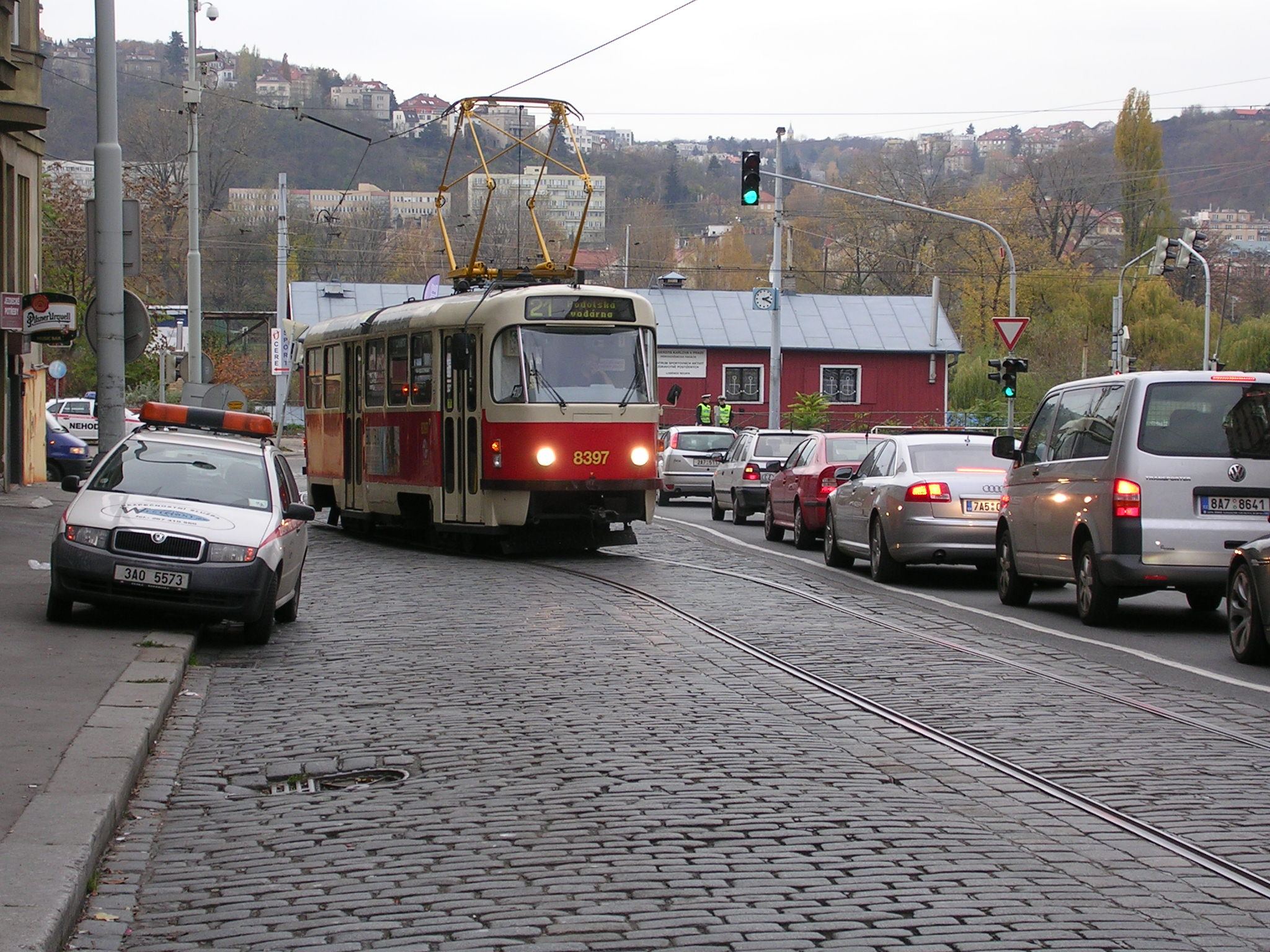 Podolí, Prague.